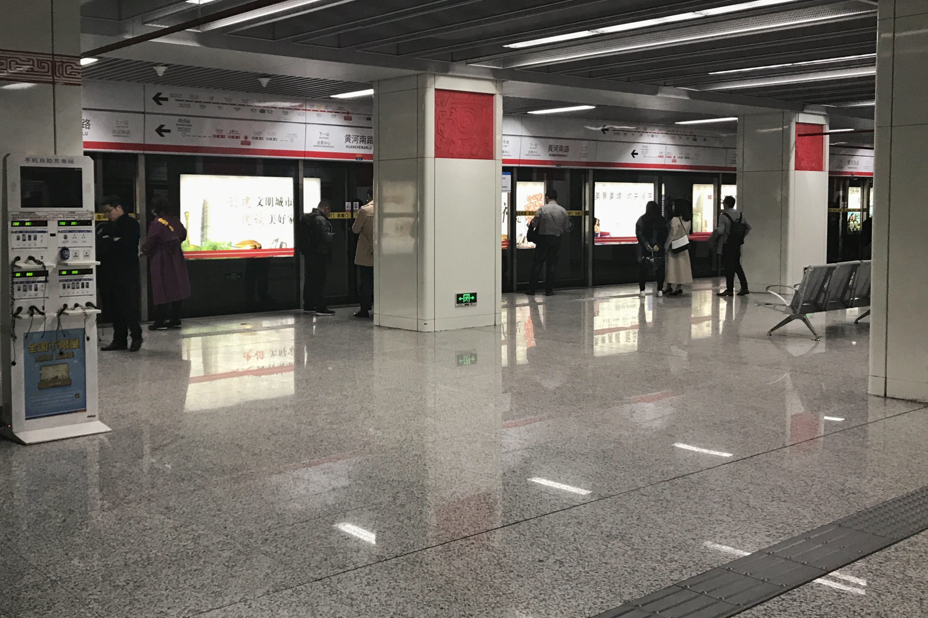 Platform of Huanghenanlu station